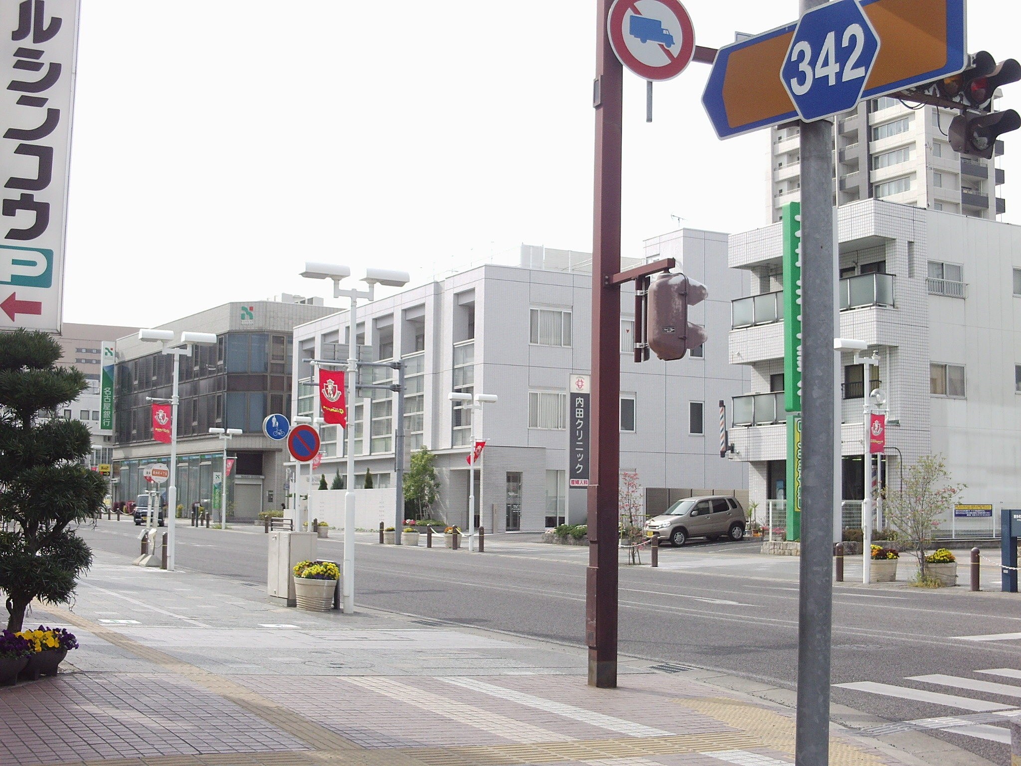 Aichi prefectural road No.342 in Kitamachi 4-chome, Toyota, Aichi.